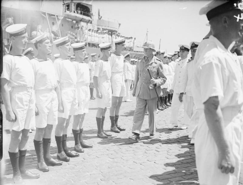 Field Marshal Smuts Visits South African Naval Forces in the Middle East, 16 May 1942 Field Marshal Smuts, in khaki army uniform, inspects massed ranks of South African sailors on the quay side in Alexandria, Egypt, 16 May 1942.